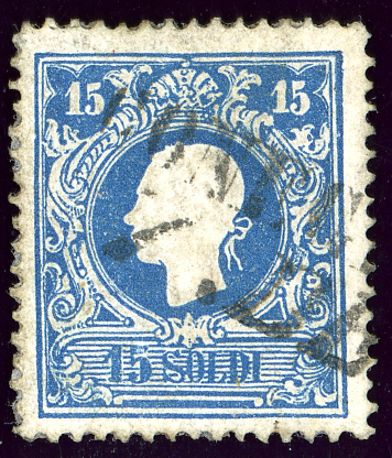 Austrian KK stamp in Venetia province, 15 soldi issue 1858, type I, cancelled at CONEGLIANO.